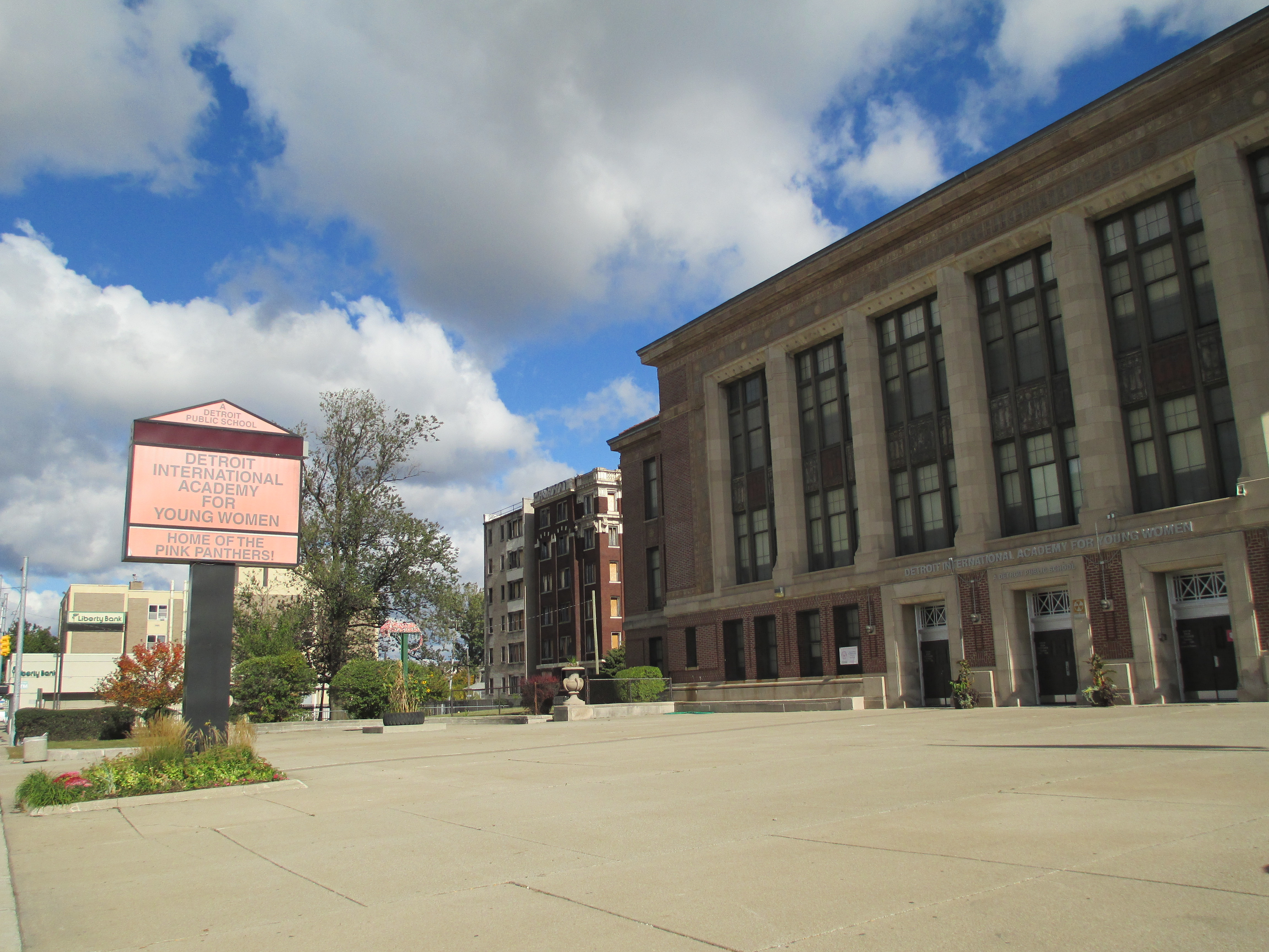 Front and sign of Detroit International Academy for Young Women school located at: 9026 Woodward Ave, Detroit, MI 48202